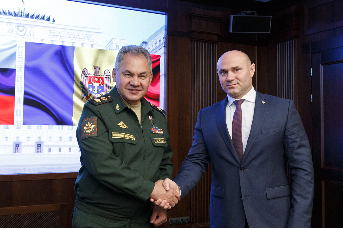 The Defense Ministers of Russia and Moldova discuss prospects for military cooperation